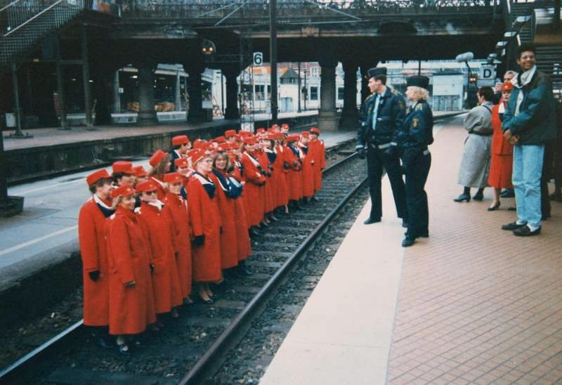 Danish train strike in 1992